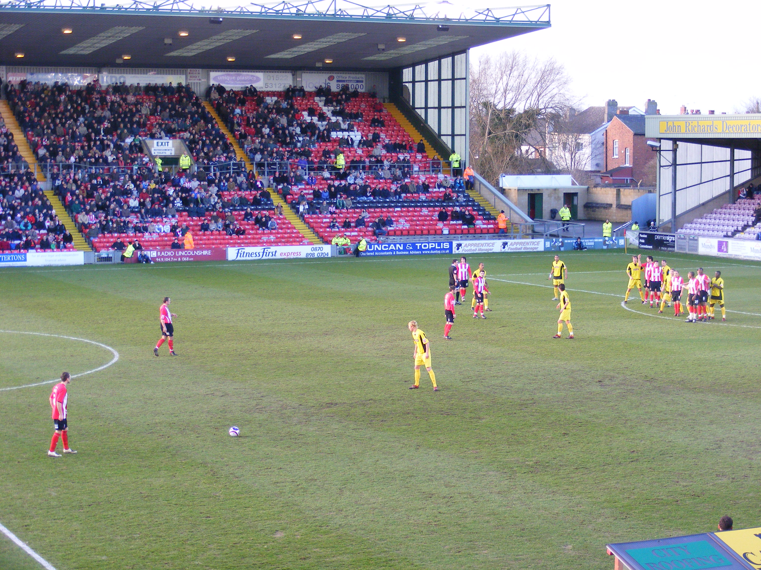 Paul Green of Lincoln City F.C. is about to take a free kick at Sincil Bank, Lincoln, Lincolnshire.